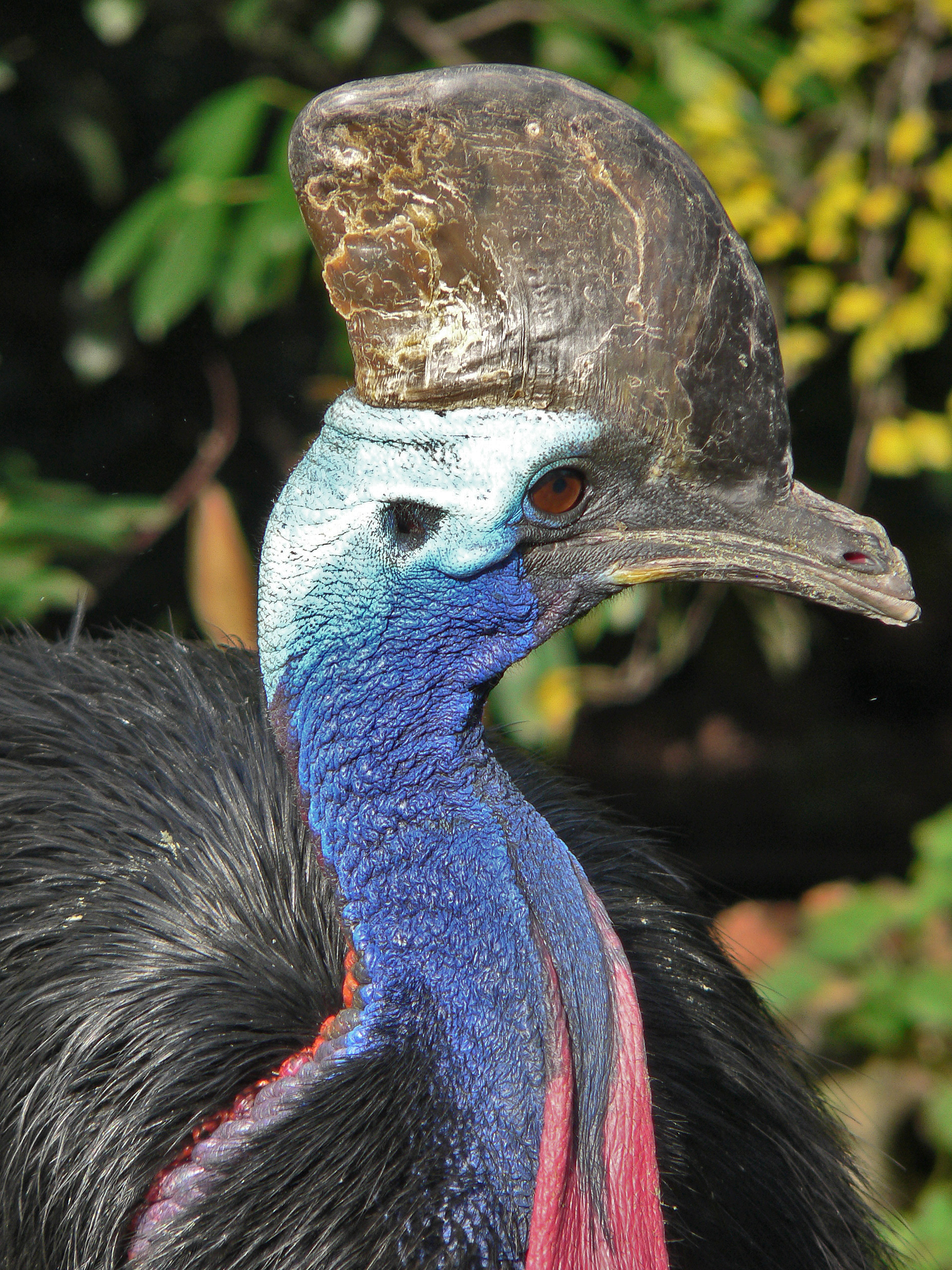 Casuaris casuaris